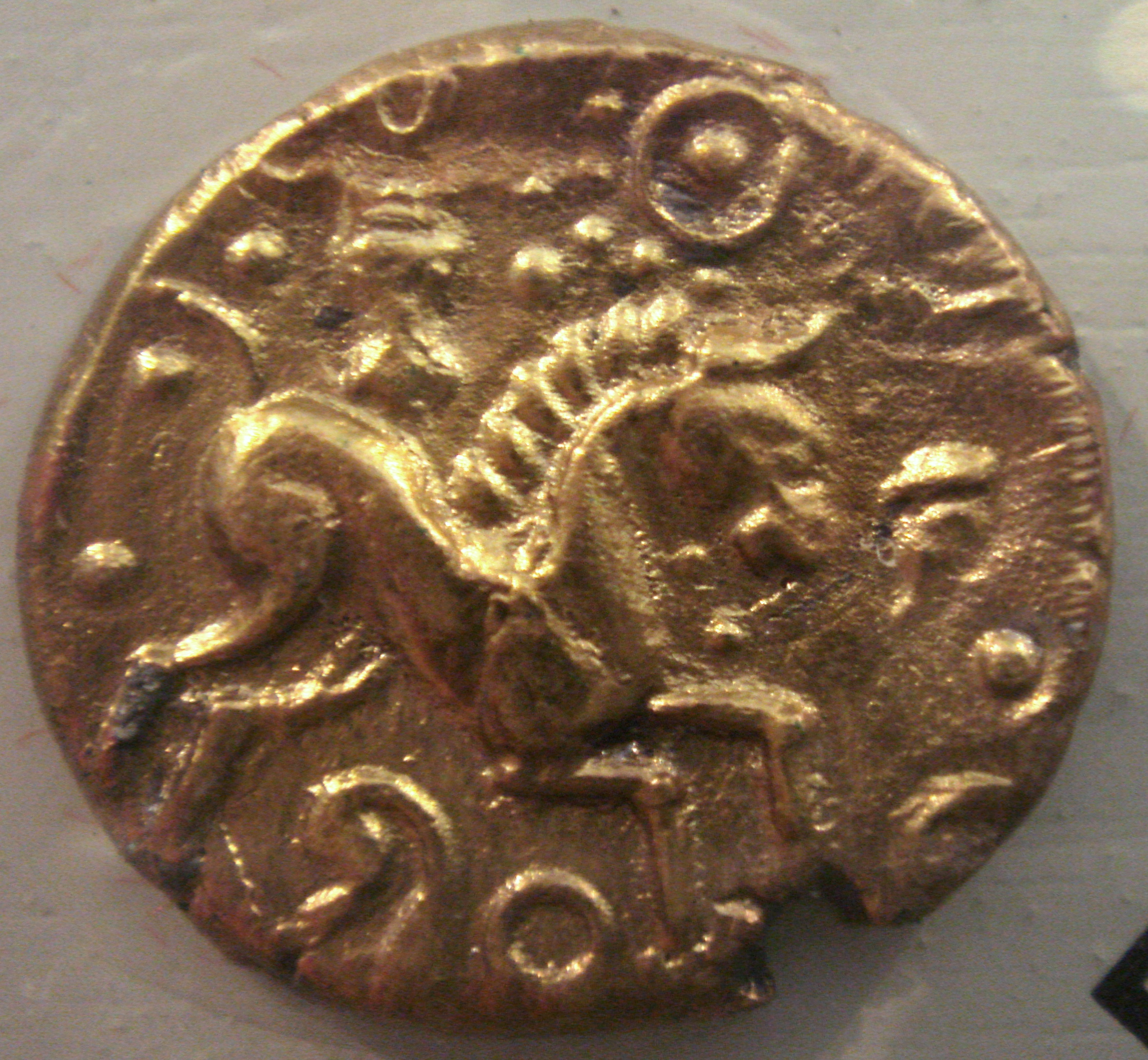 Trinovantes coin